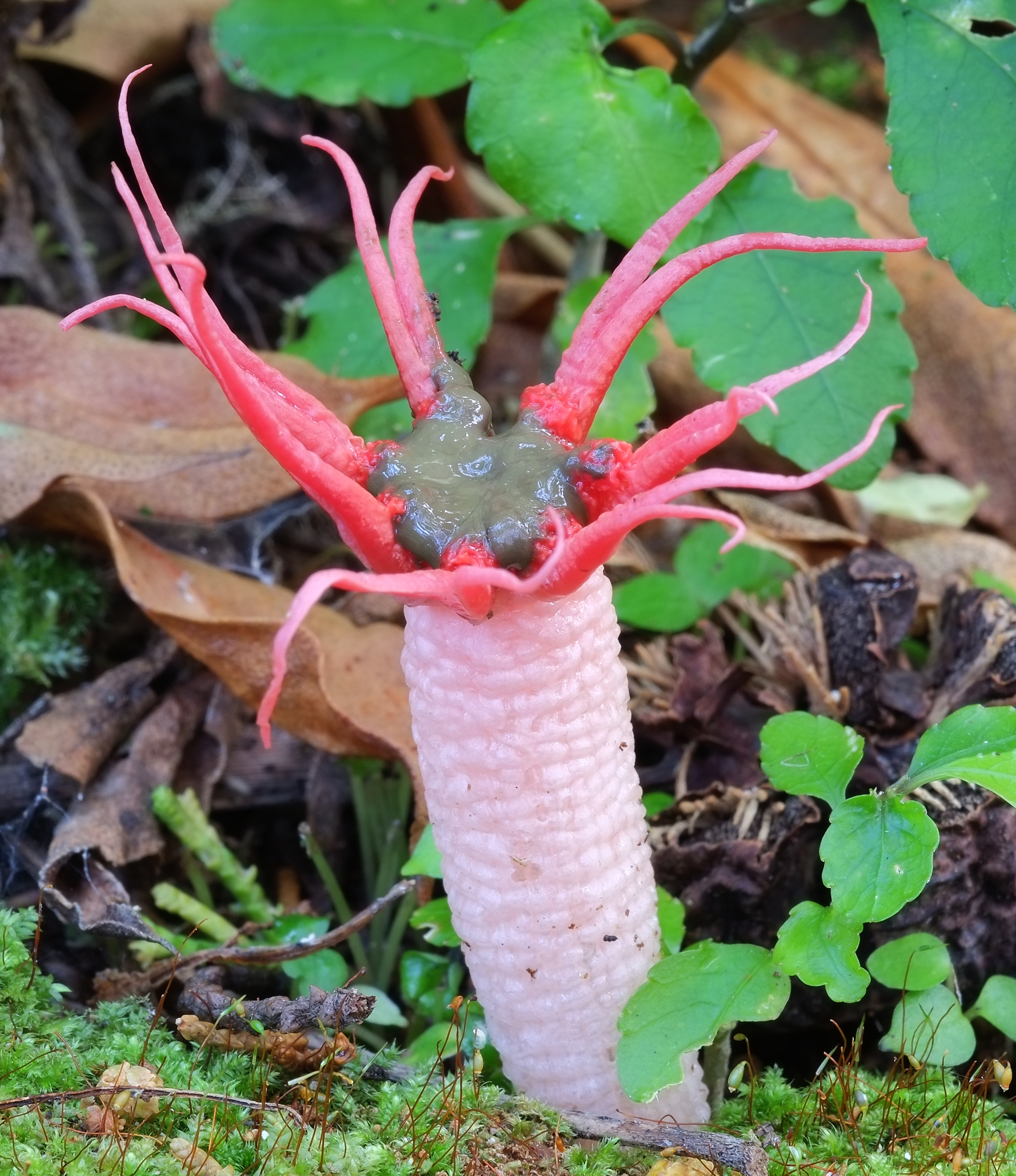 Anemone fungus (Aseroe rubra) growing on forest floor on the North Island of New Zealand. The white stalk is about 5 centimetres (2 in) tall, and the fungus's brownish slime at the top clearly visible.